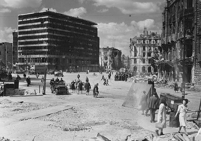 Potsdamer Platz, Berlin, 1945. On the left the Columbushaus, on the right the ruin of Hotel Fürstenhof. Canadian soldiers in the jeep.